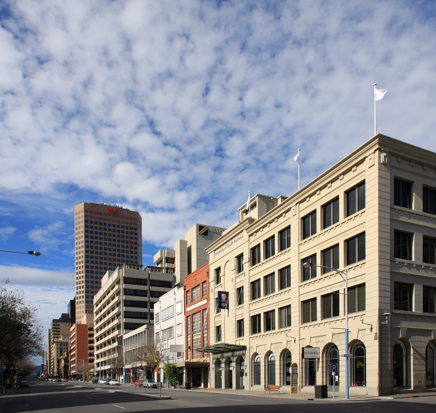 Currie Street in the Adelaide cbd looking east towards King William and Grenfell streets, with the Westpac building in view. (Adelaide's tallest building since the 1980s - originally named the State Bank tower, until such time as the bank went spectacularly broke in the 1990s!)